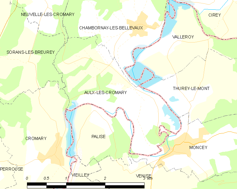 Map of French municipality